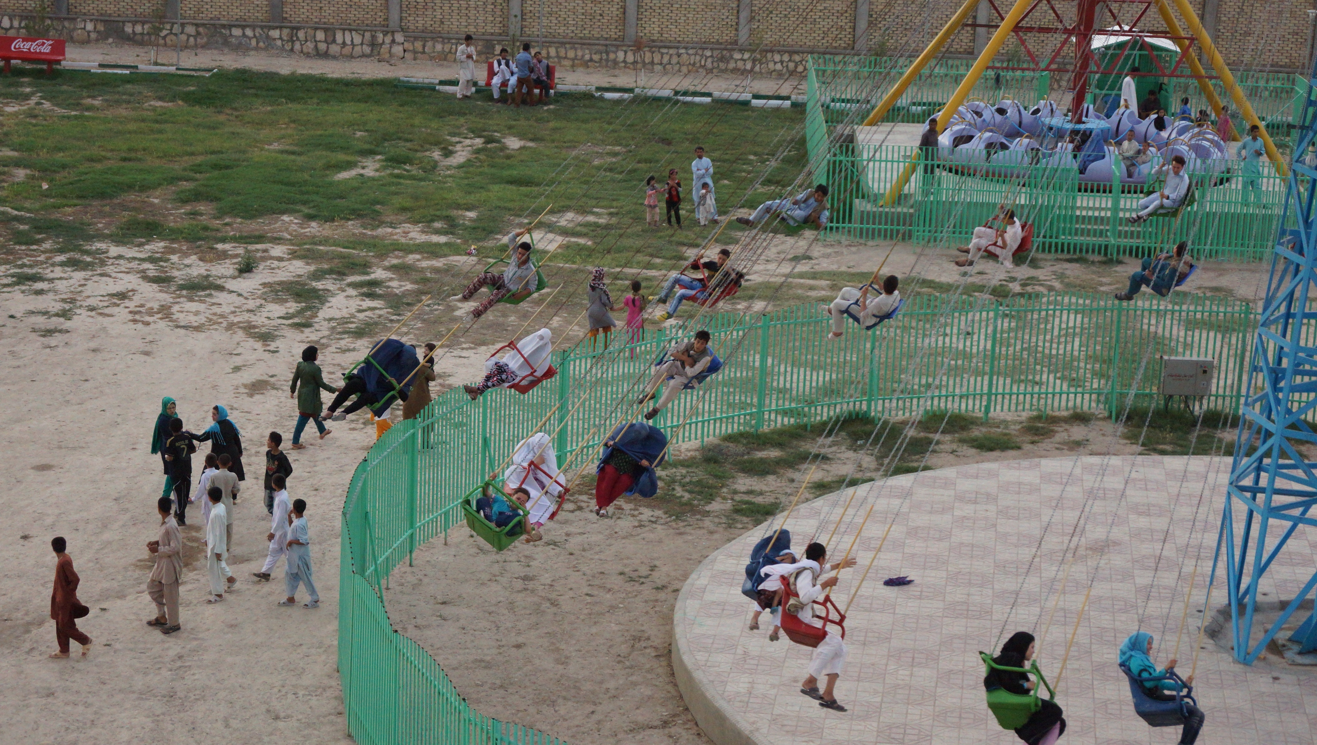 Inside the Maulana Jalaludin Cultural Park in Mazar-e-Sharif, Afghanistan.